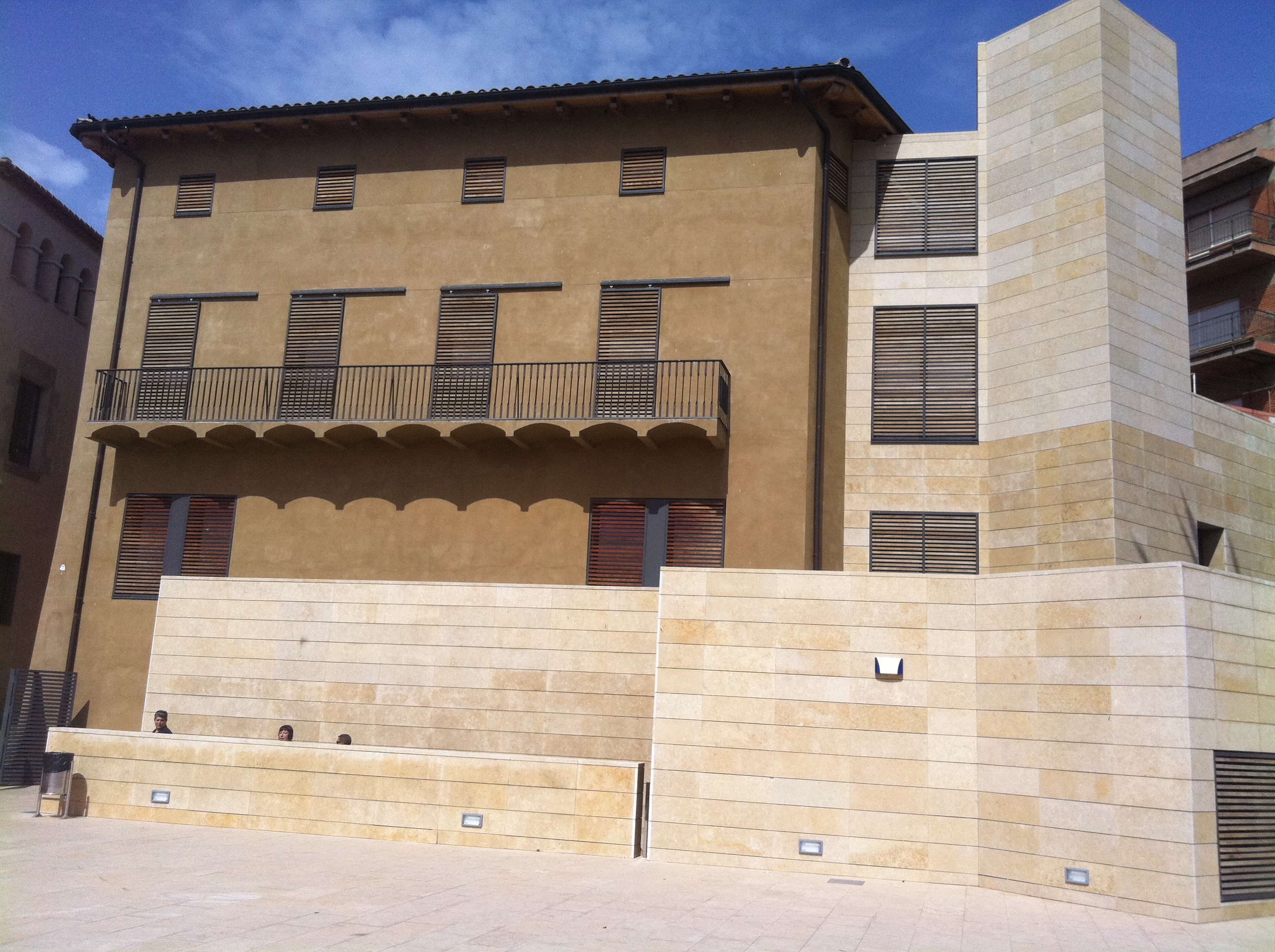 Collection of the Museu the Sant Boi de Llobregat